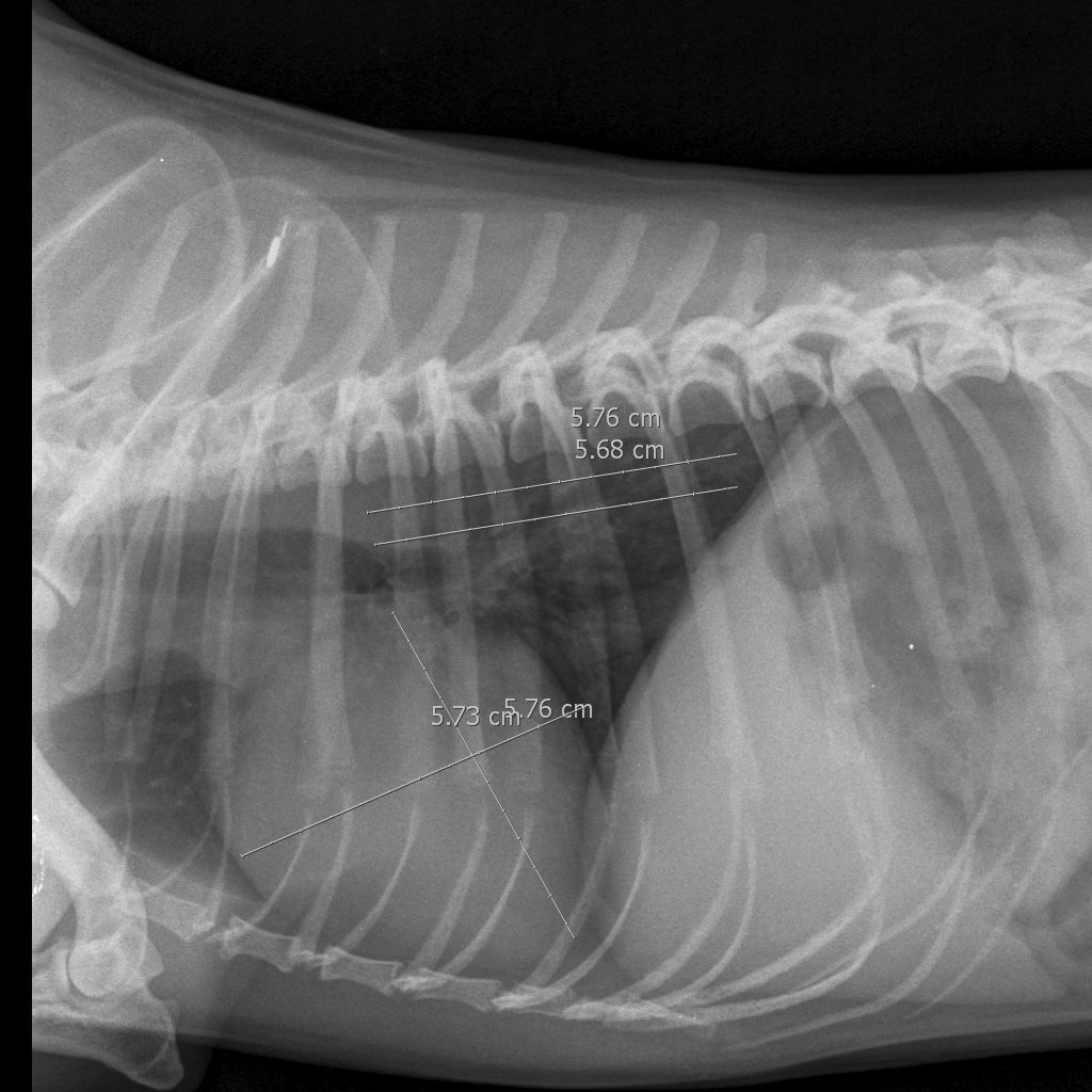 Chronic bronchitis in a Pekingese dog weighing 5.2 kg